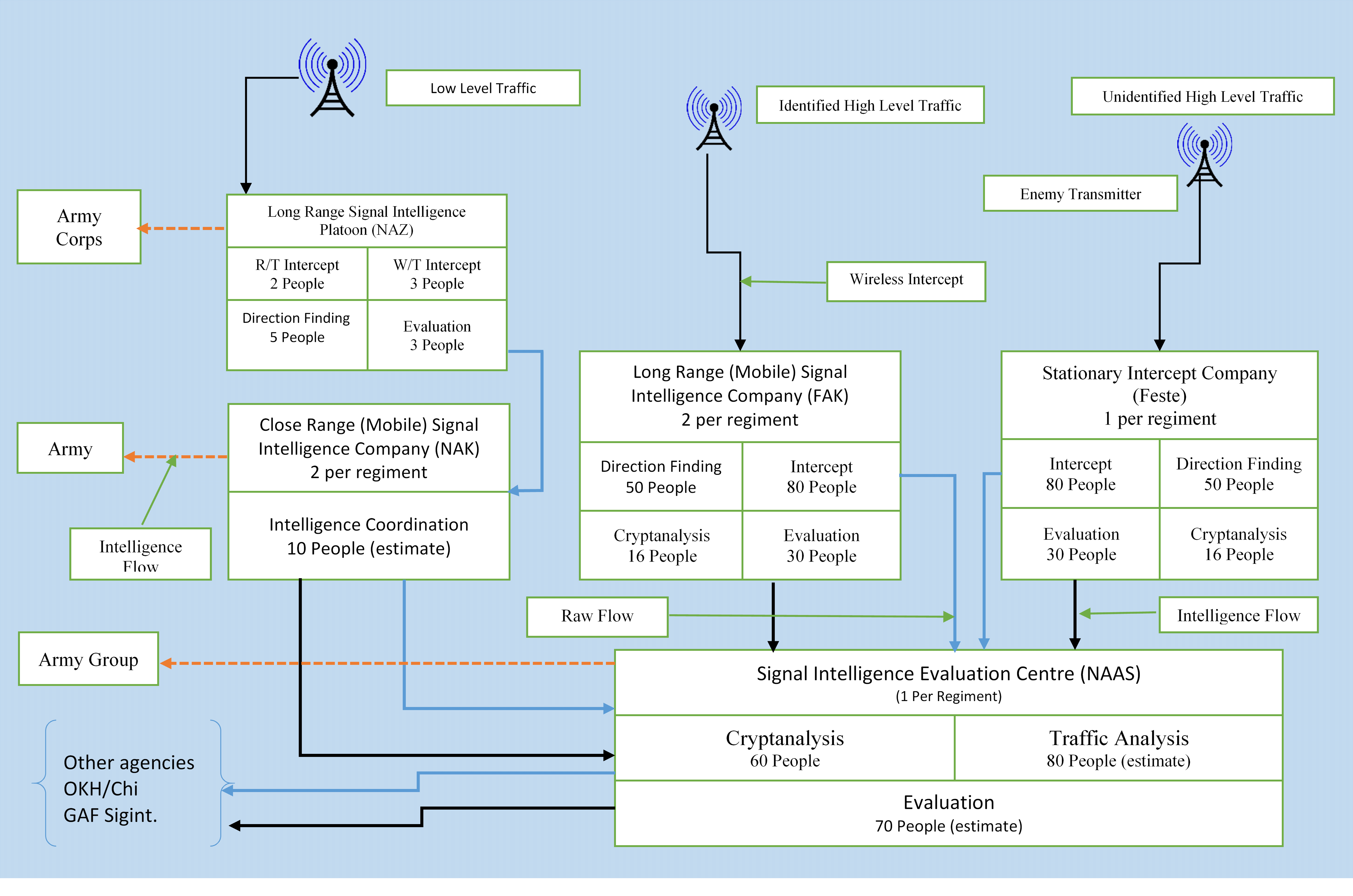 KONA Signal Intelligence Regiment layout